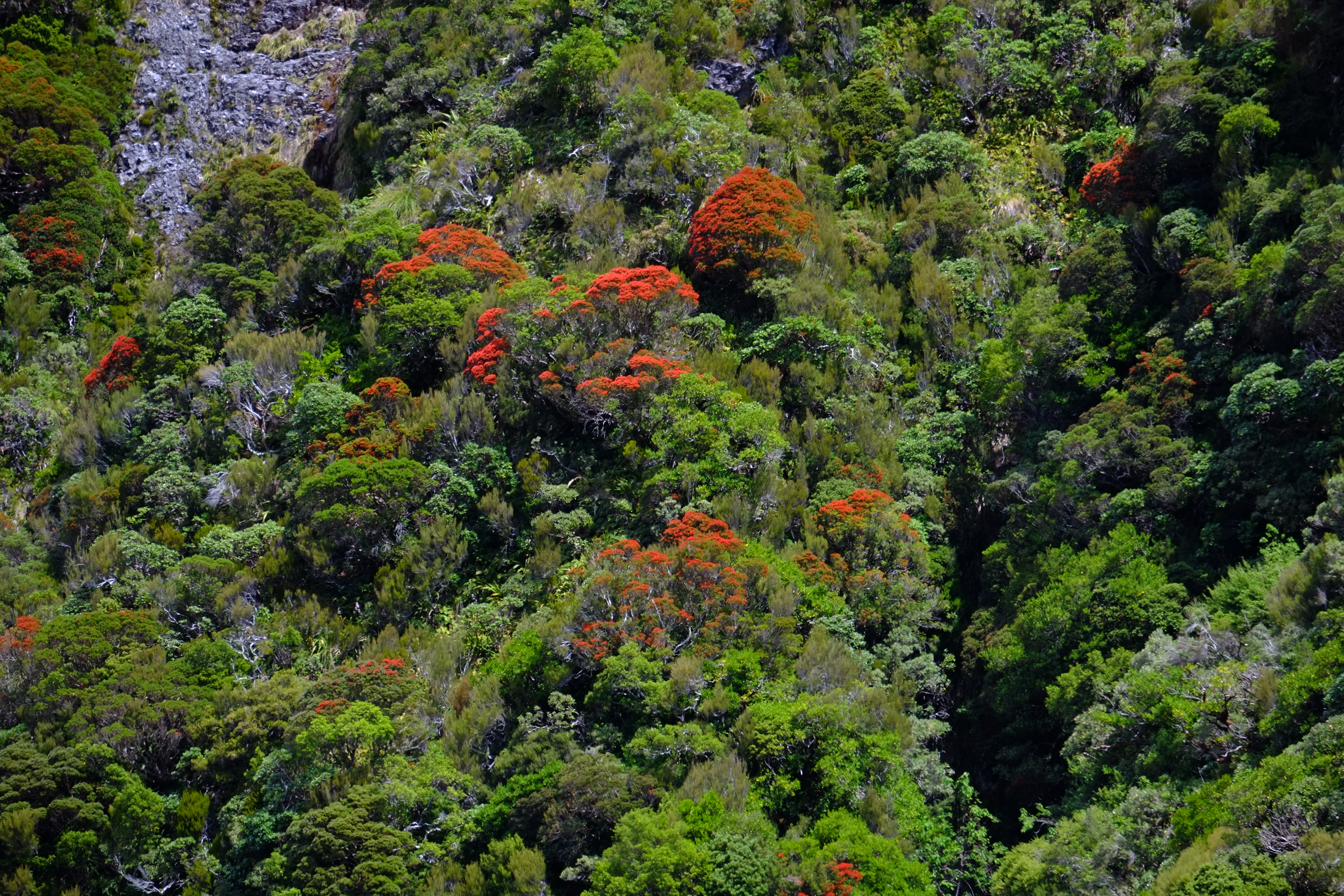 Southern Rata